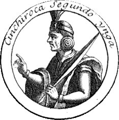 Portrait of Sinchi Roca, detail of the frontispiece to the fifth Decade of Historia general de los hechos de los castellanos en las Islas y Tierra Firme del mar Océano que llaman Indias Occidentales by Antonio de Herrera